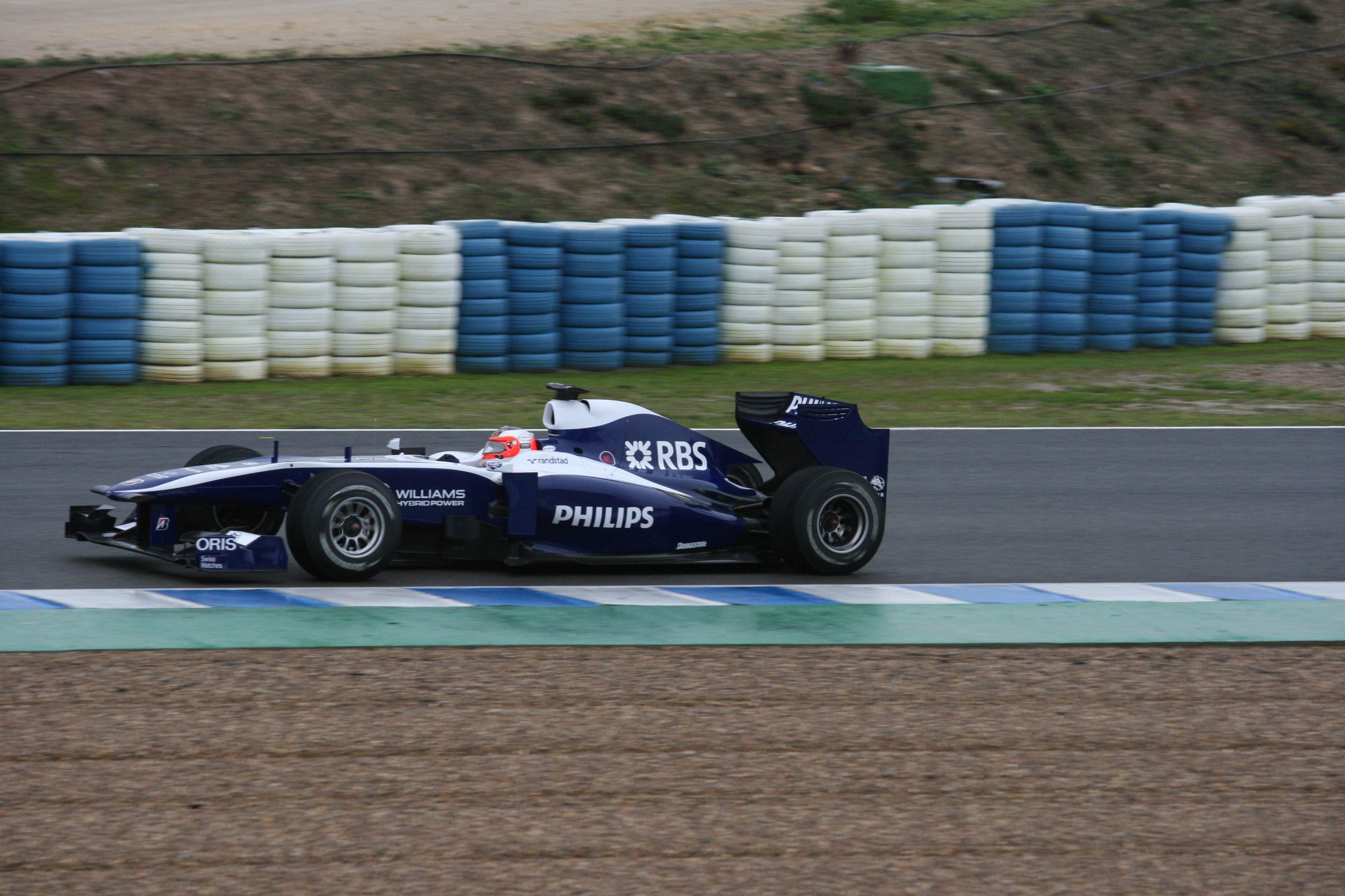 Rubens Barrichello testing for WilliamsF1 at Jerez, 12/02/2010.